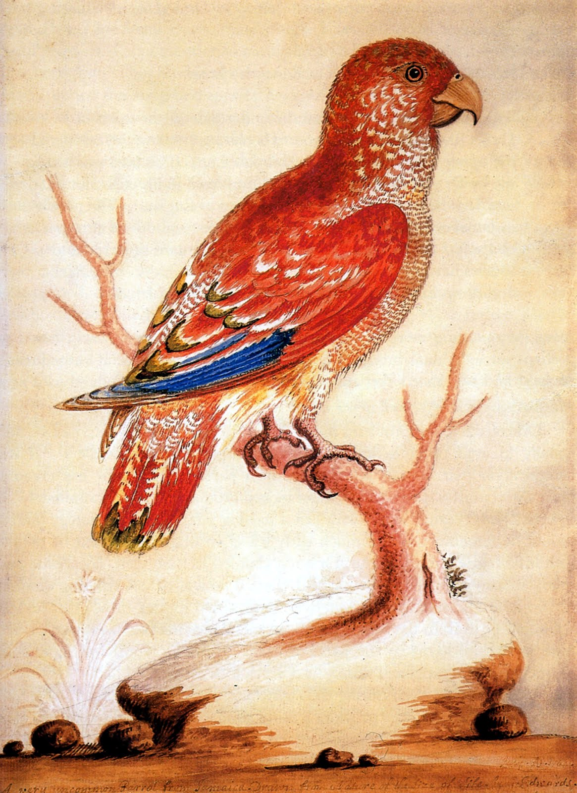 Watercolour of an unidentified Jamaican parrot ("George Edwards' parrot"), possibly a colour variant of a known Amazona species, perhaps A. collaria. George Edwards description: "A very uncommon parrot from Jamaica. Drawn from Nature the size of life. The inside of the wings and the under side of the tail is of a durlis (the meaning of this word is obscure) yellow, the colours of the upper sides casting faintly through them. The bird was lent to me by Dr. Alexander Russel and is preserved in his collection. It was shot in Jamaica and brought dried to England. The people in Jamaica did not remember ever to have seen one of this species of parrots before. Some of the feathers have their tips red and others have them yellow. The feathers on the under sides, back and rump have yellow with fine transverse lines of red."